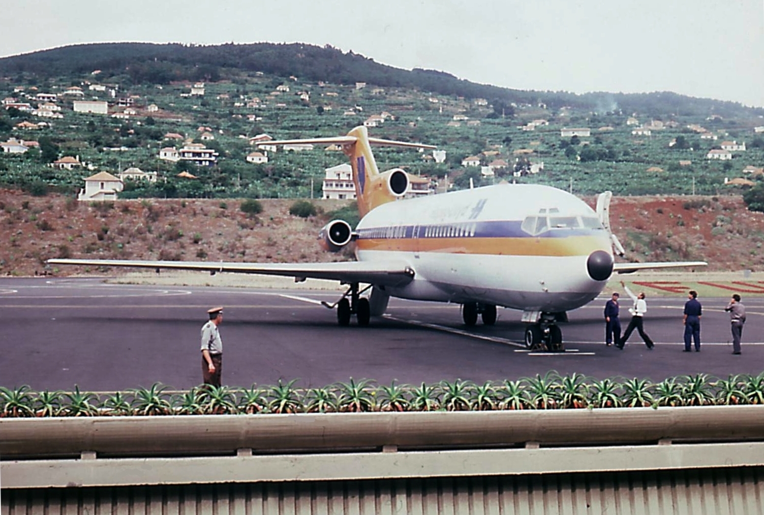 A Boeing 727 of the Hapag-Lloyd Flug at the airport in Funchal/Madeira, 1978